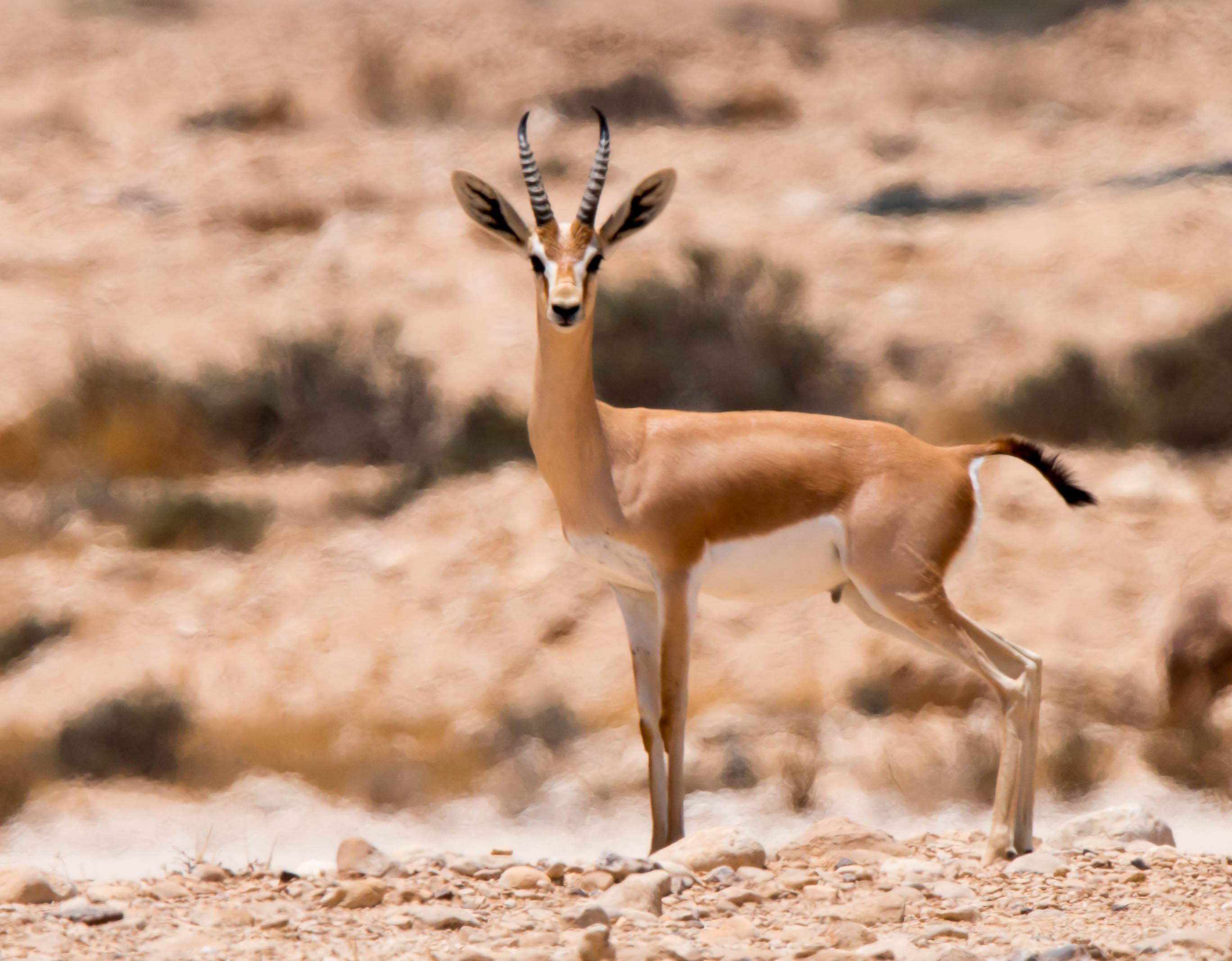 Dorcas gazelle (Gazella dorcas). Ezuz, Israel